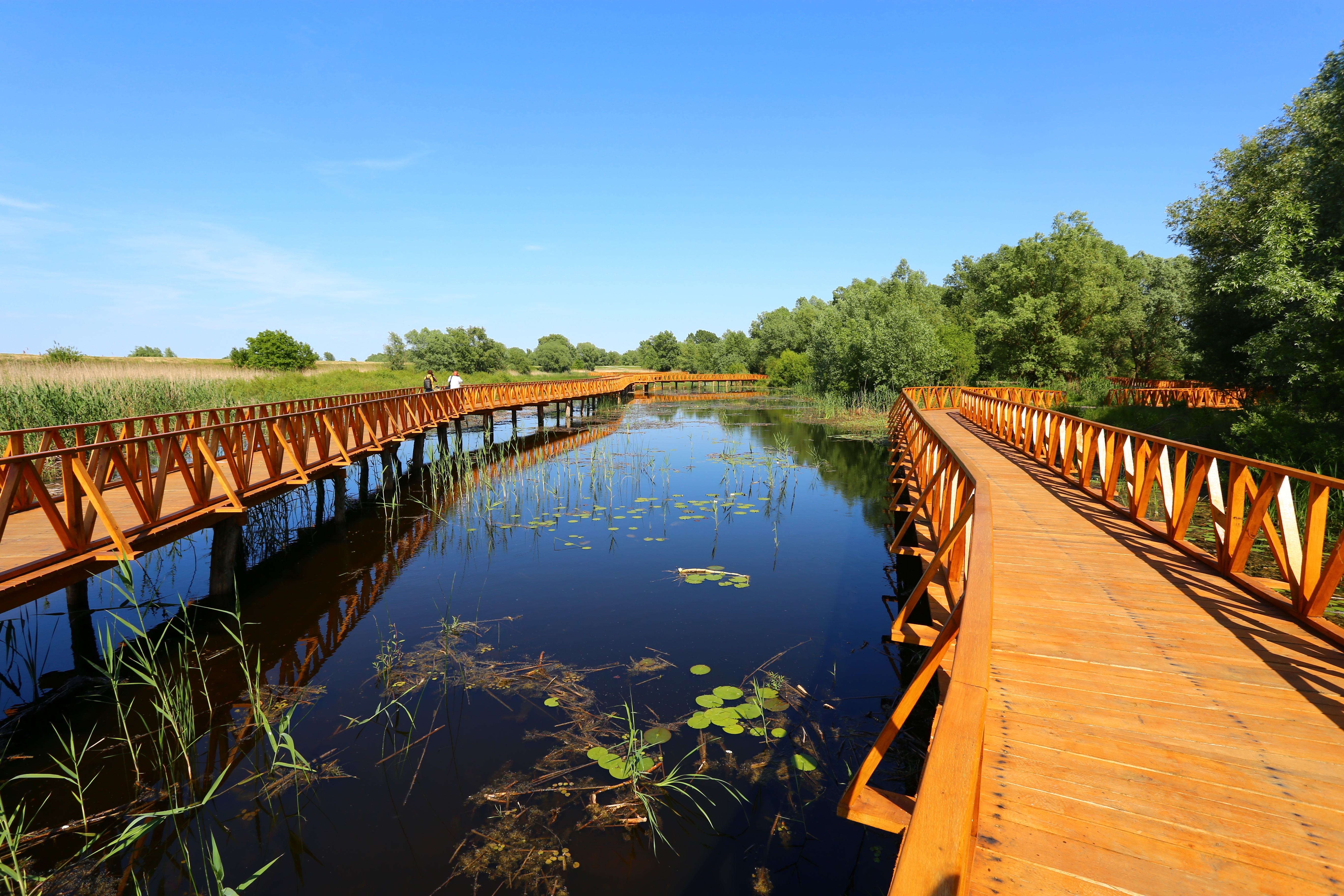 wooden trail you can take through Kopački rit near Osijek, Croatia